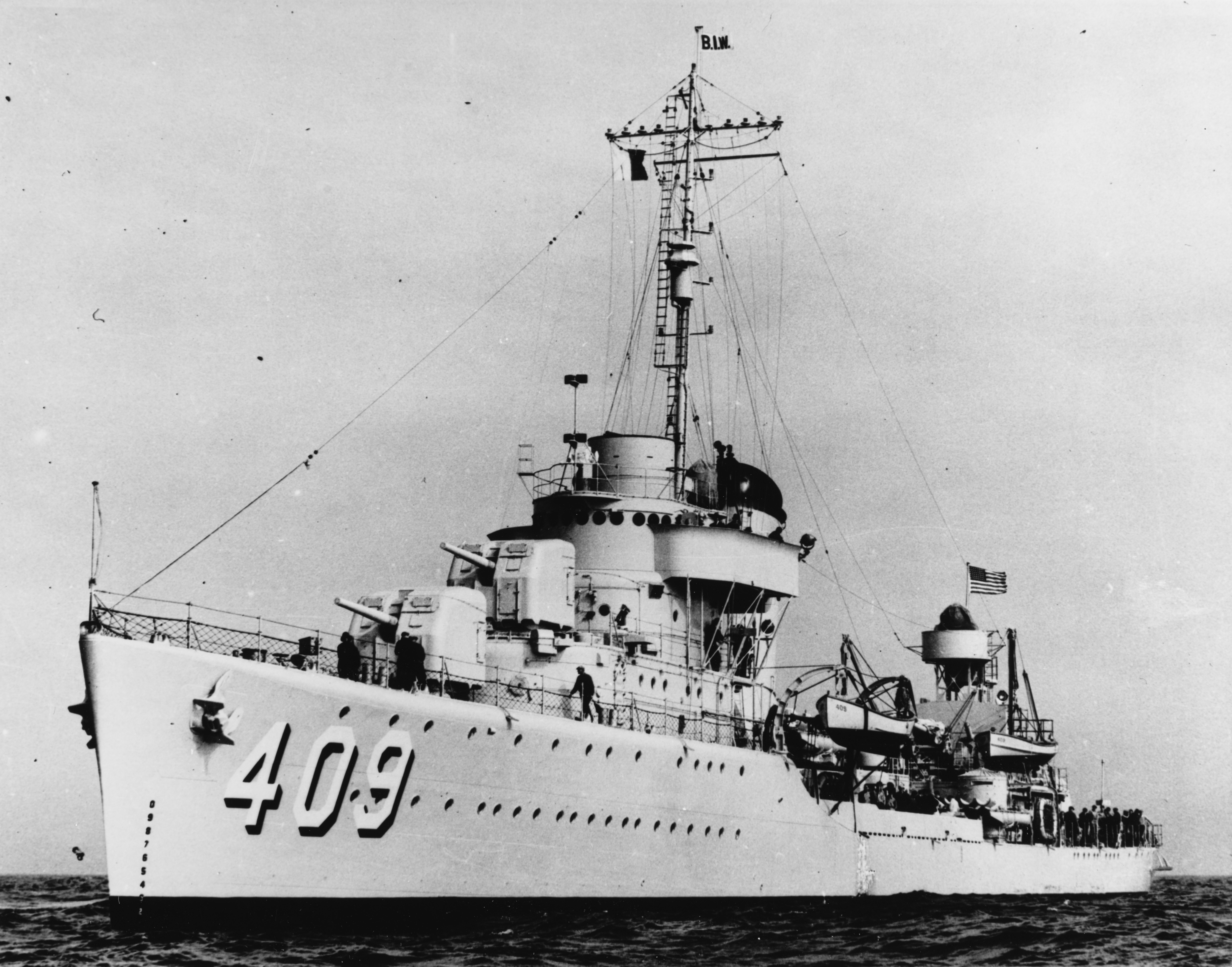 Off the Kennebec River, Maine, during her builder's trials, 6 July 1939. She is flying the flag of Bath Iron Works, her builder, at the foremast peak. Note that Sims' Mark 37 main gun battery director has not yet been installed. Photograph from the Bureau of Ships Collection in the U.S. National Archives.